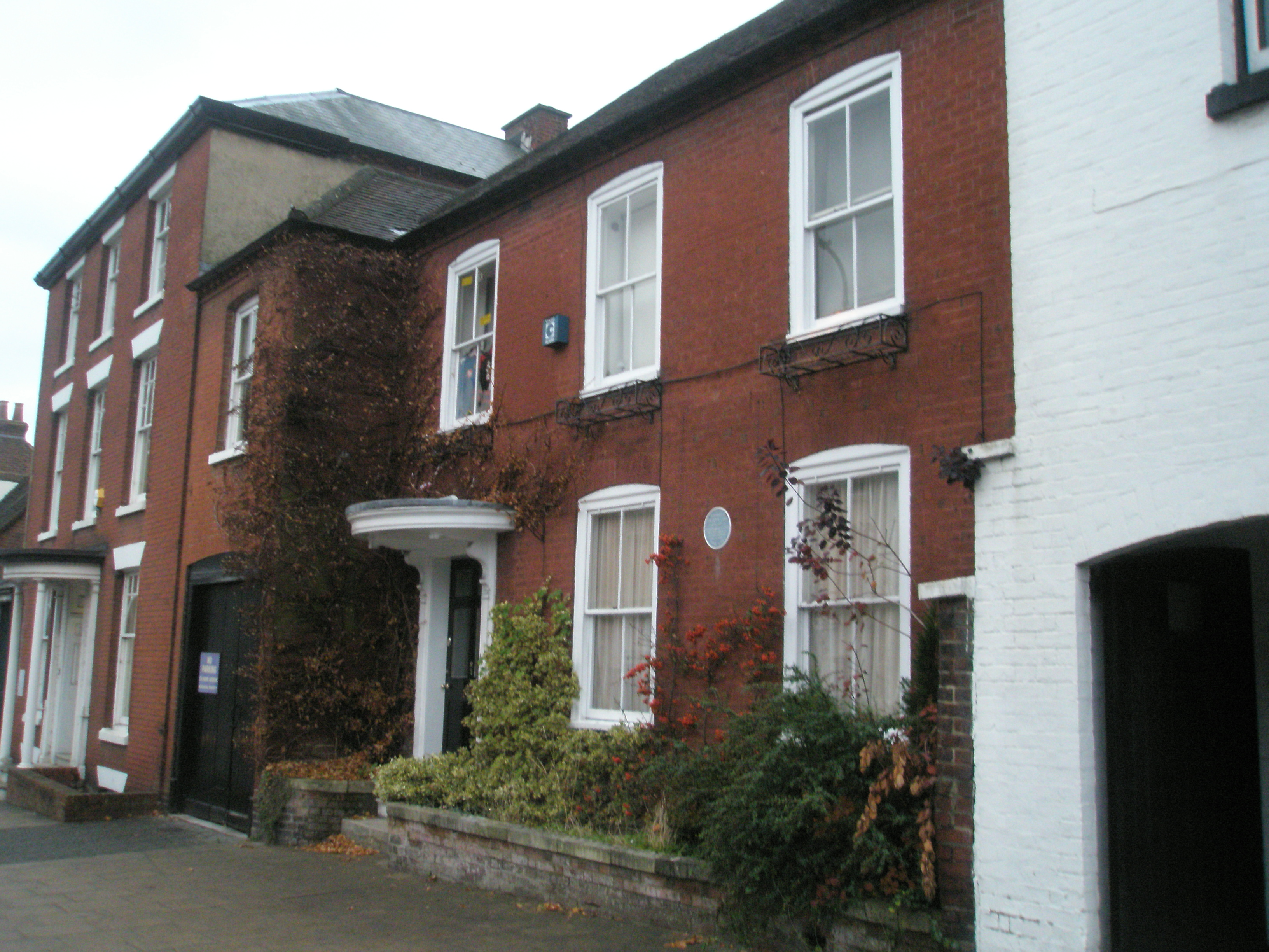 Former home of composer John Goss at 21 High Street, Fareham. Taken by M.Eyre, 20th November 2007